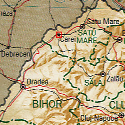 Map of Carei Municipality, Romania.